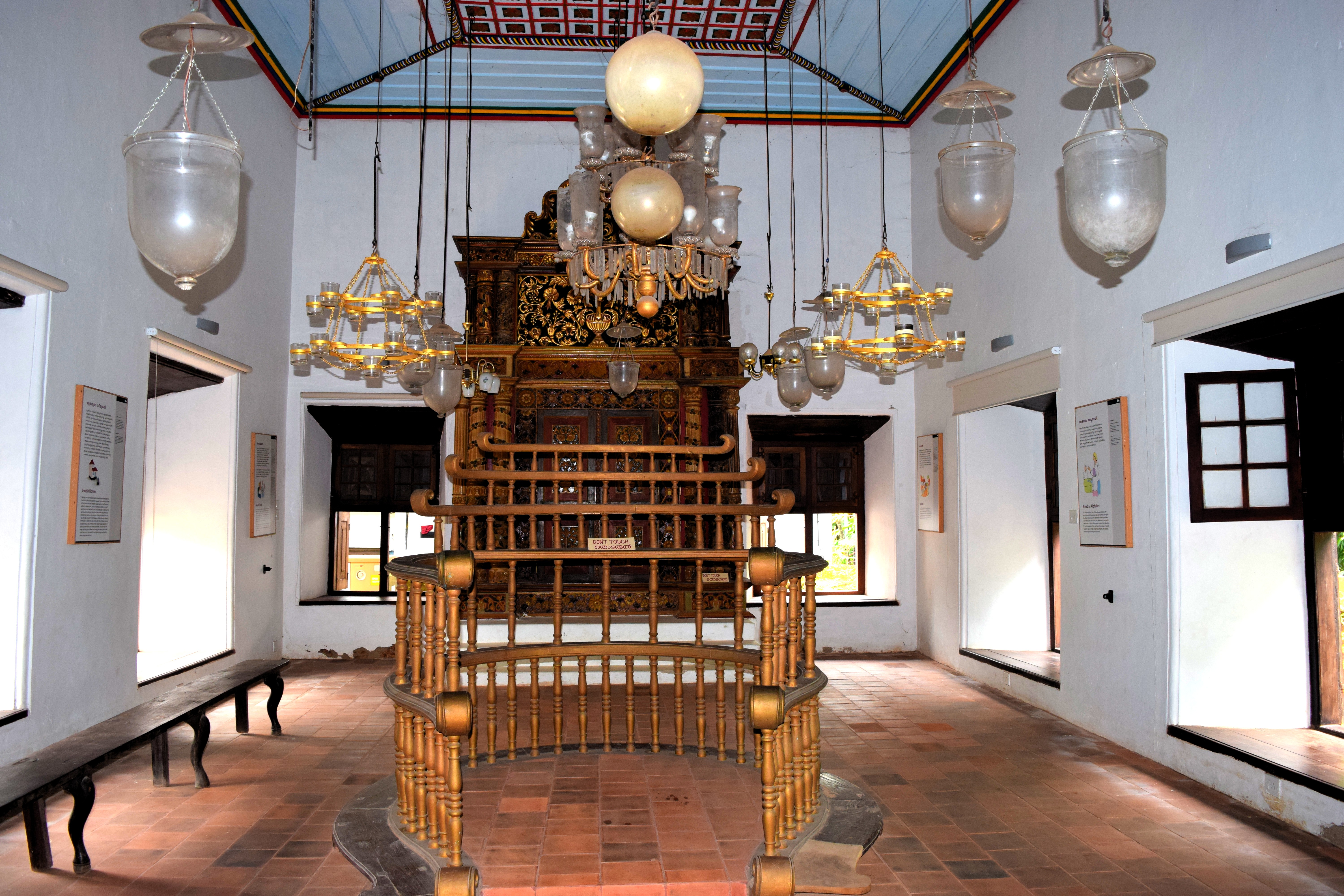 Jewish Synagogue, Kottayilkovilakam, Ernamulam, Chendamangalam, Kerala 683521